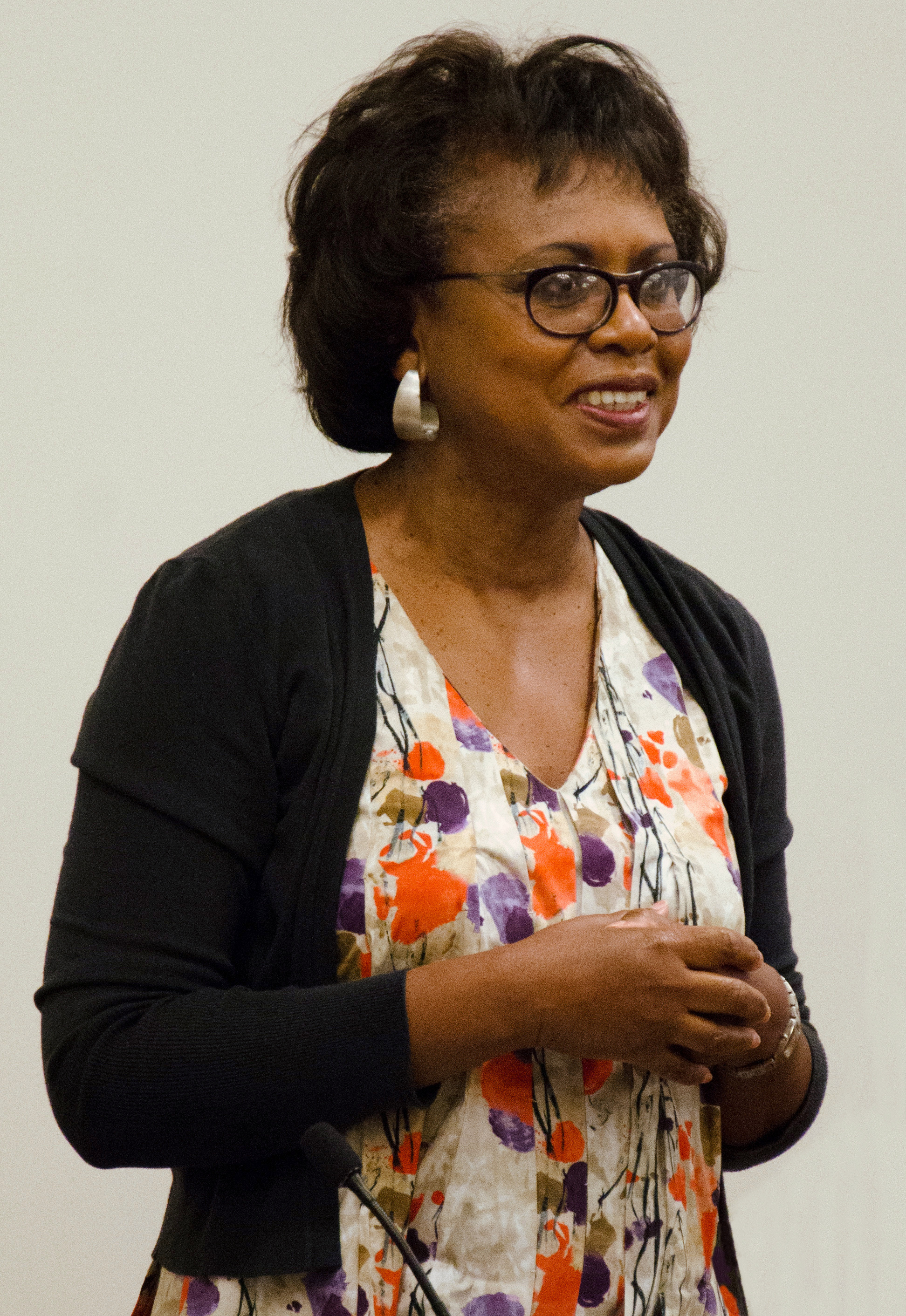 Professor Anita Hill at Harvard Law School, September 24, 2014.